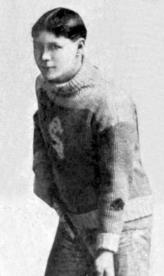 Canadian ice hockey player Frank Switzer of the Michigan Soo Indians in the International Professional Hockey League.